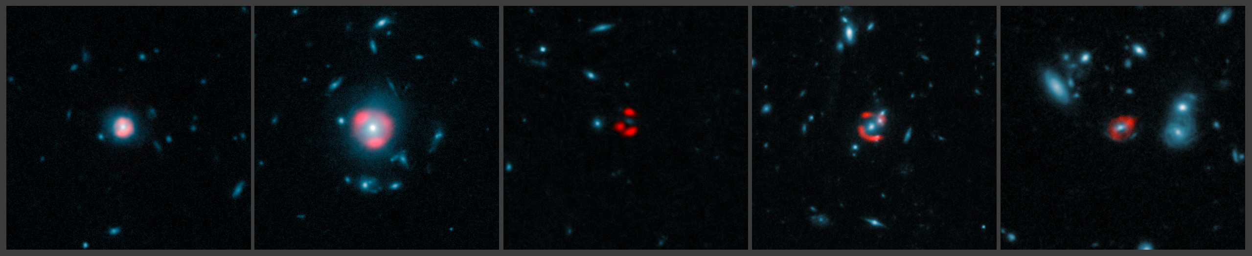 This montage combines data from ALMA with images from the NASA/ESA Hubble Space Telescope, for five distant galaxies. The ALMA images, represented in red, show the distant, background galaxies, being distorted by the gravitational lens effect produced by the galaxies in the foreground, depicted in the Hubble data in blue. The background galaxies appear warped into rings of light known as Einstein rings, which encircle the foreground galaxies.